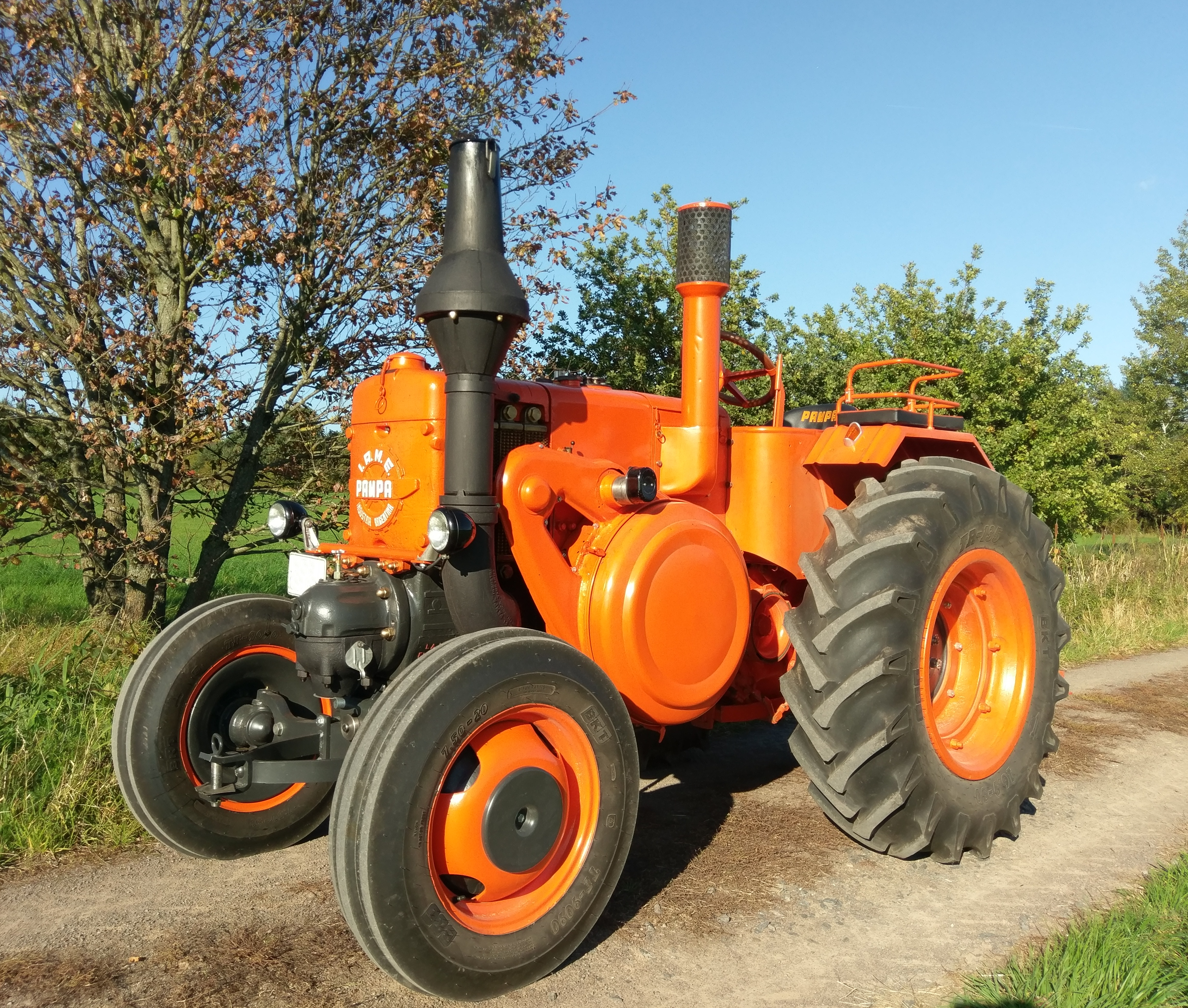 I.A.M.E. Pampa Tractor Typ T01